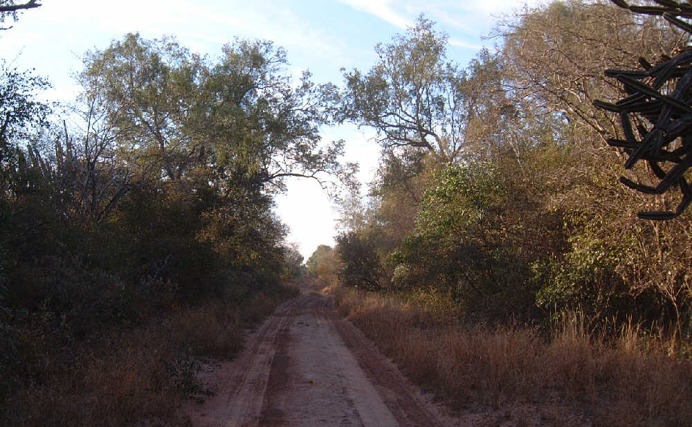 Paraguay, north western Chaco, Palmar de las Islas, during dry season